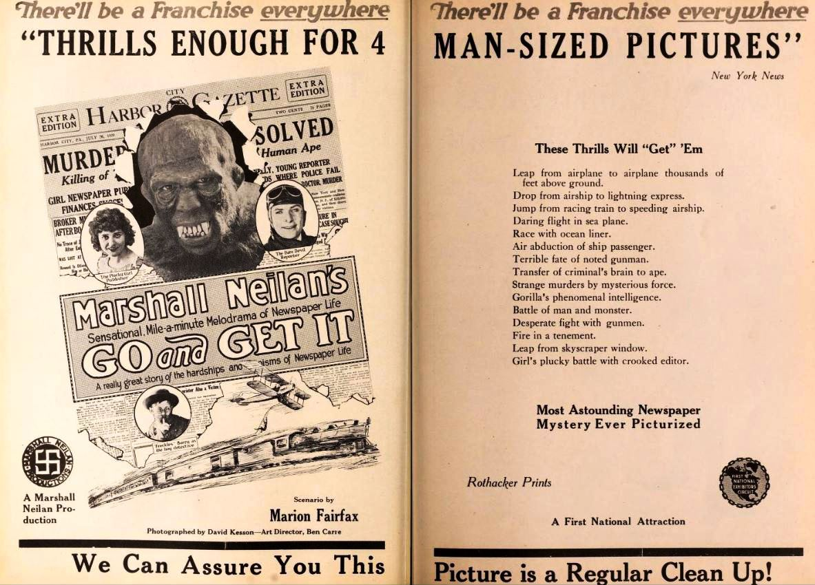 Advertisement for the American comedy drama mystery film Go and Get It (1920) with Patrick H. O'Malley, Jr., Agnes Ayres, and Wesley Barry, on pages 22 and 23 of the August 14, 1920 Exhibitors Herald.